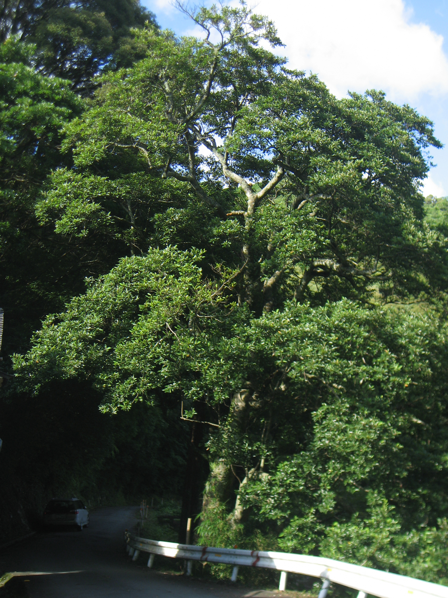 Magnolia compressa (Syn. Michelia compressa), City Natural monument of Ise.Date taken(YYYY-MM-DD): 2010-07-18Place taken: Yamochi, Ise, Mie, Japan.